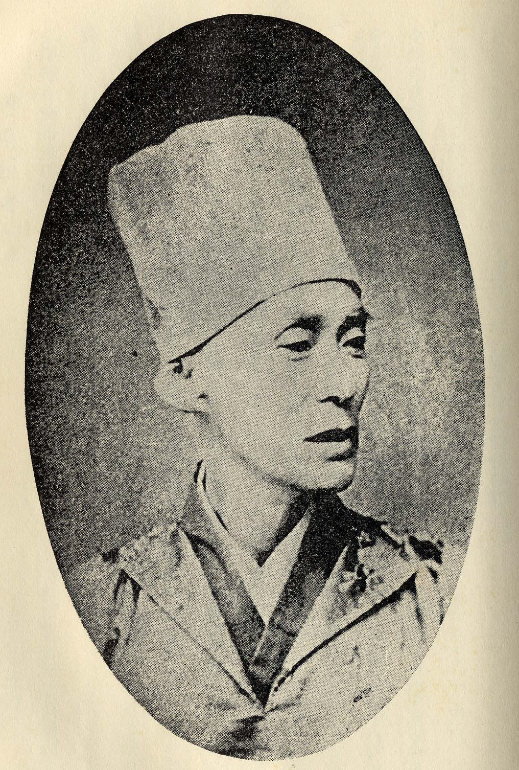 Awashima Chingaku was a Japanese painter in Edo period. This photo was ran in the book what was published in 1925.